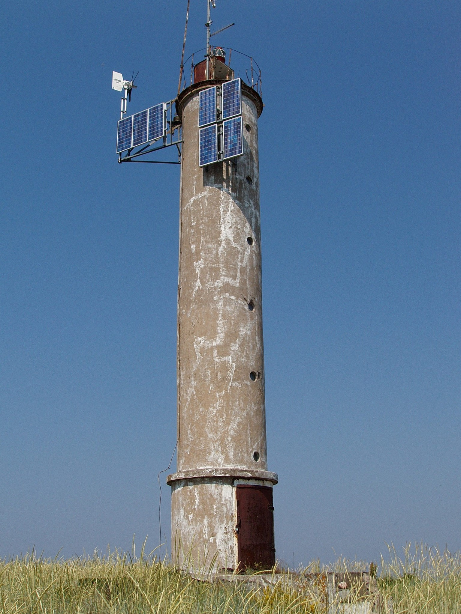 Lighthouse at island Prangli. Estonia.